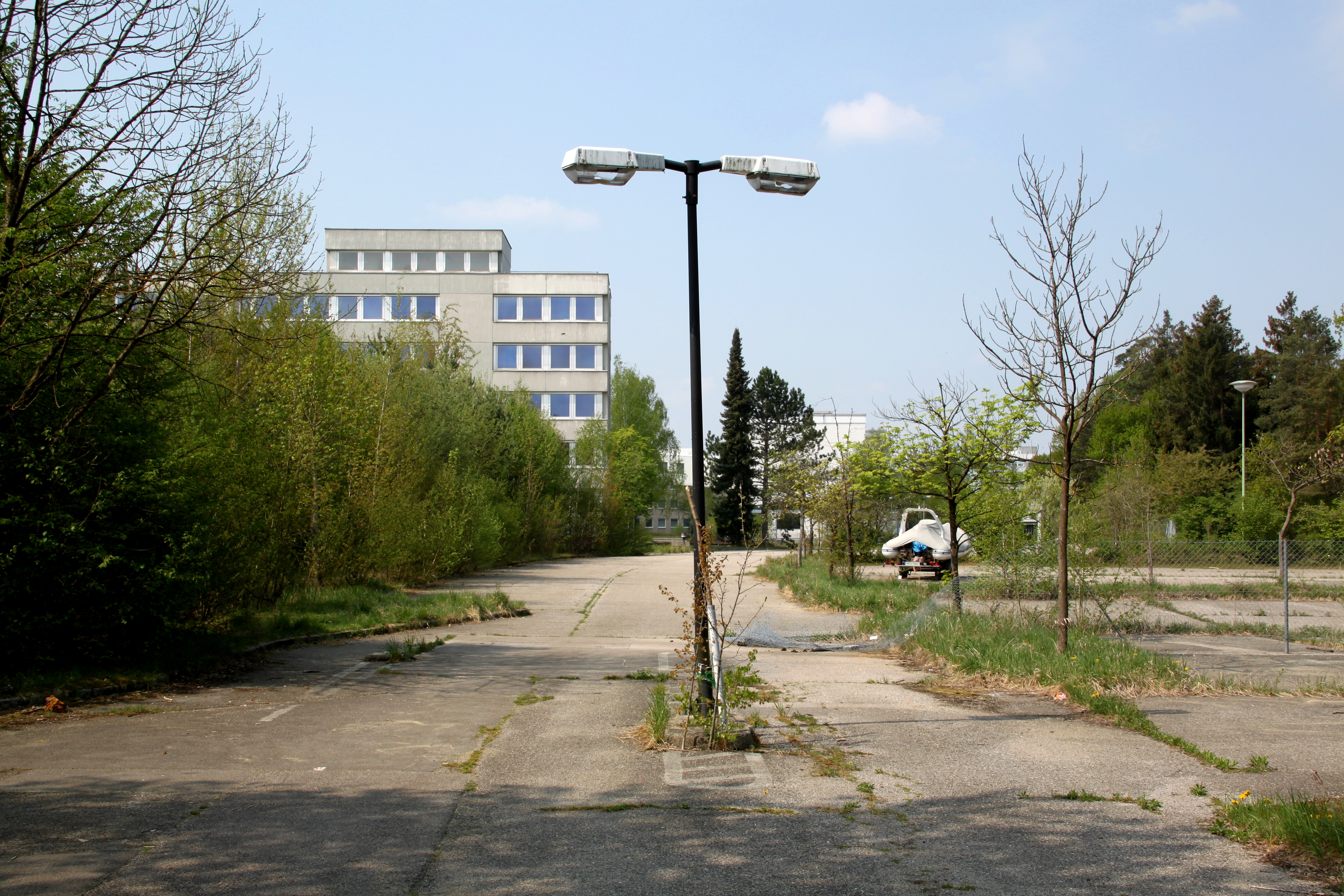 Ottobrunn: Empty office buildings (e. g. 24.0) and neglected infrastructure in the Ottobrunn part of the former MBB/IABG site (view from Einsteinstraße).